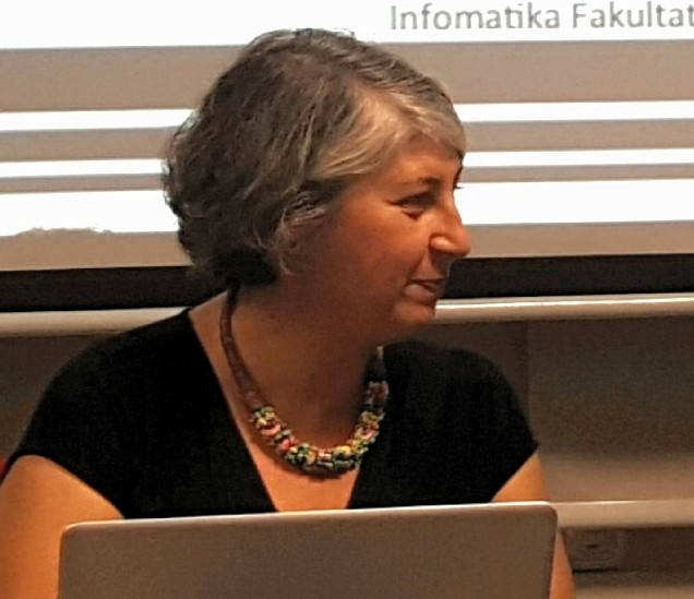 Computer scientist and programmer from Galicia.